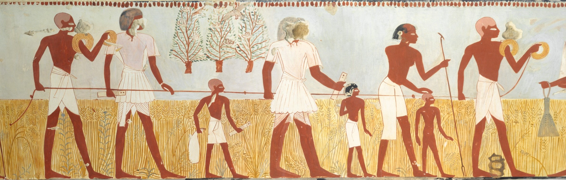 Facsimile, Menna (TT 69), harvest